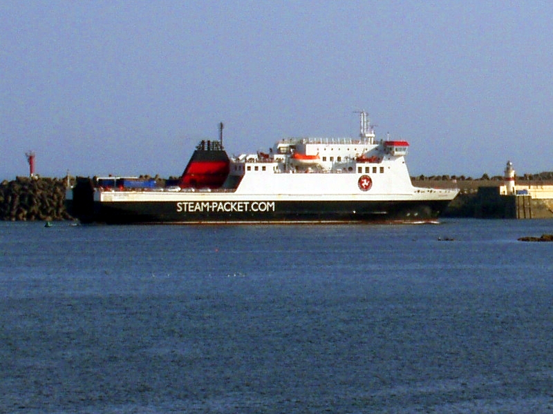 The Ben-my-Chree, a RO-PAX (roll-on/roll-off/passenger) type ferry vessel, is seen here approaching the pier at Douglas Harbor in Isle of Man. The ship was launched in 1998 at the now-defunct Van der Giessen de Noord Shipyards in the Netherlands and has been in service with the Isle of Man Steam Packet Company ever since.